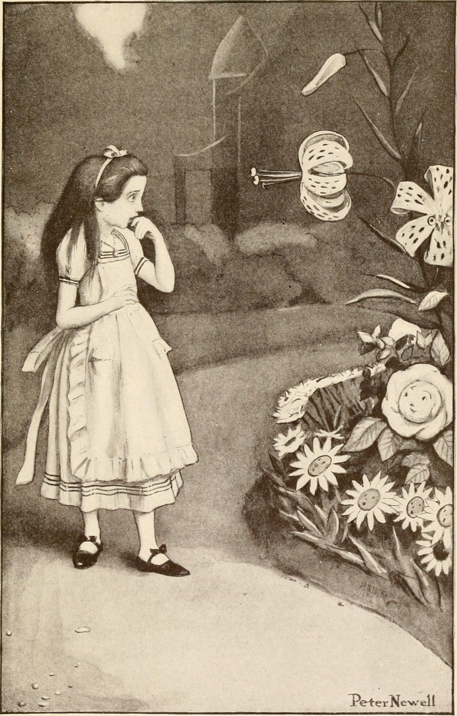 Title: Through the looking glass and what Alice found there Year: 1902 (1900s) Authors: Carroll, Lewis, 1832-1898 Newell, Peter, 1862-1924, ill Subjects: Fantasy Publisher: New York and London : Harper & Bros. Text Appearing Before Image: ' Text Appearing After Image: 44 i We can talk, said the Tiger-lily : ACS